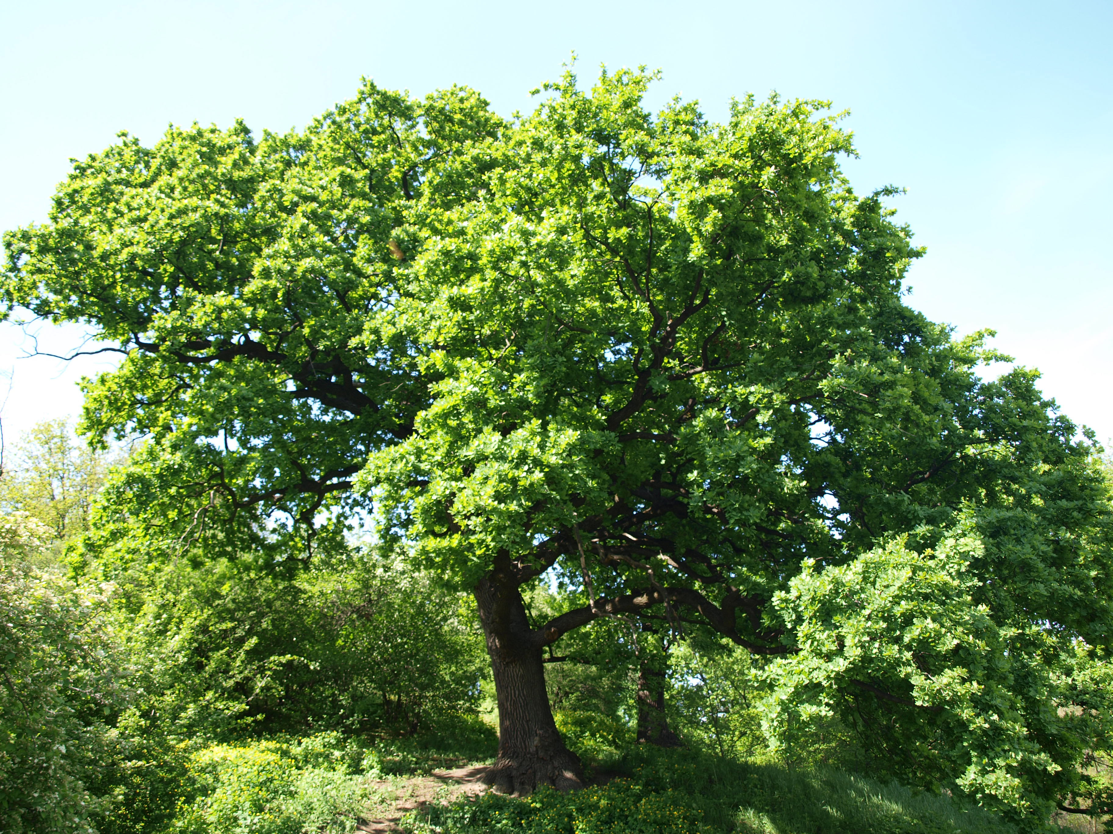 Oak in National M. M. Grishko botanical garden in Kyiv (Ukraine)